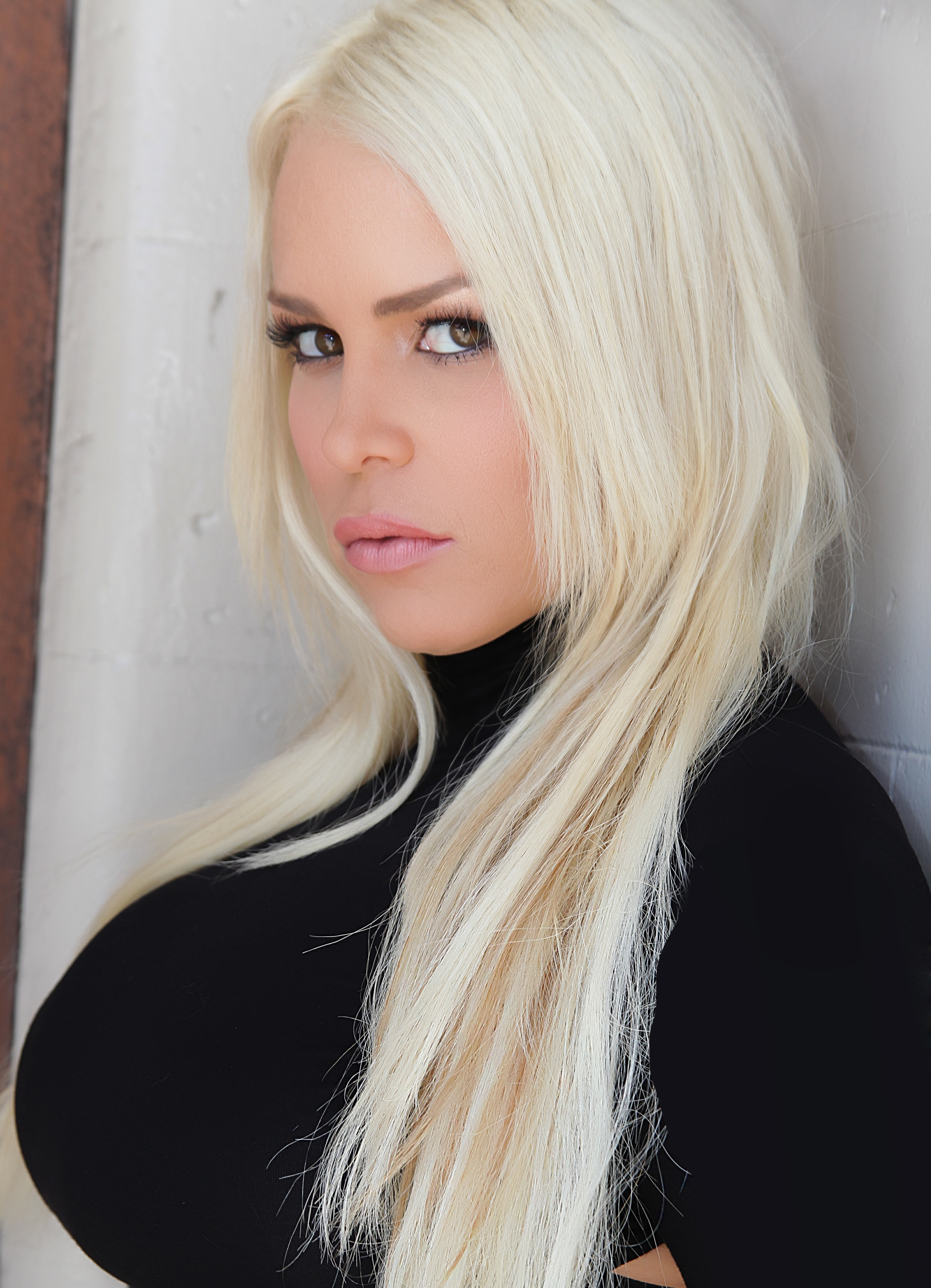 Bobbi Billard headshot